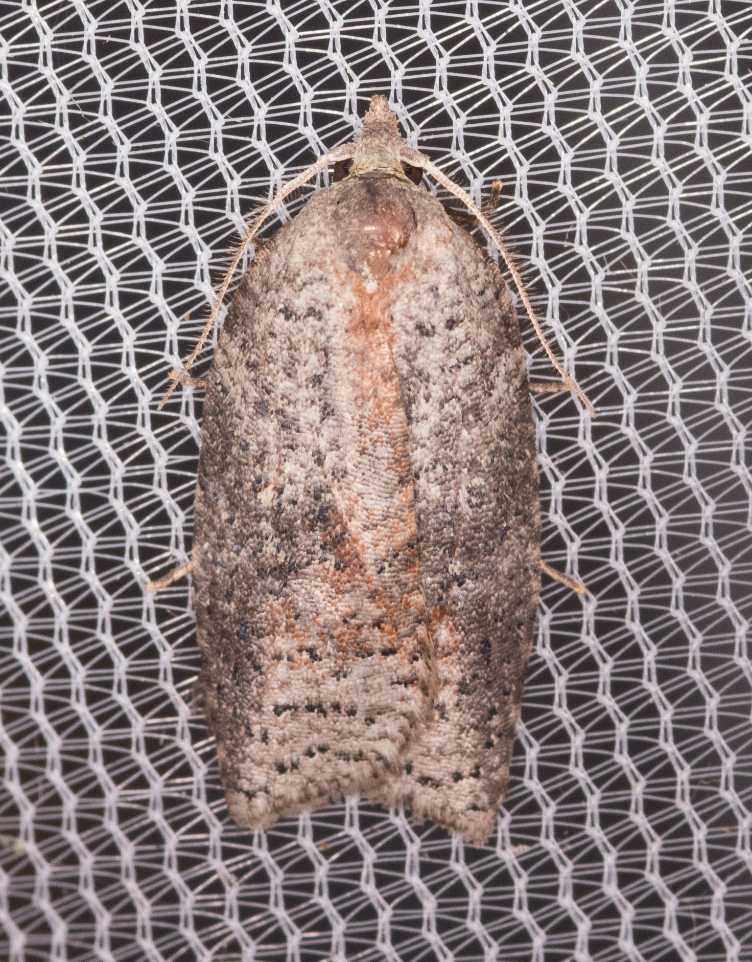 (Amorbia humerosana) Pleasant Walk Road, Frederick County, Maryland. May 28, 2016. At UV light.